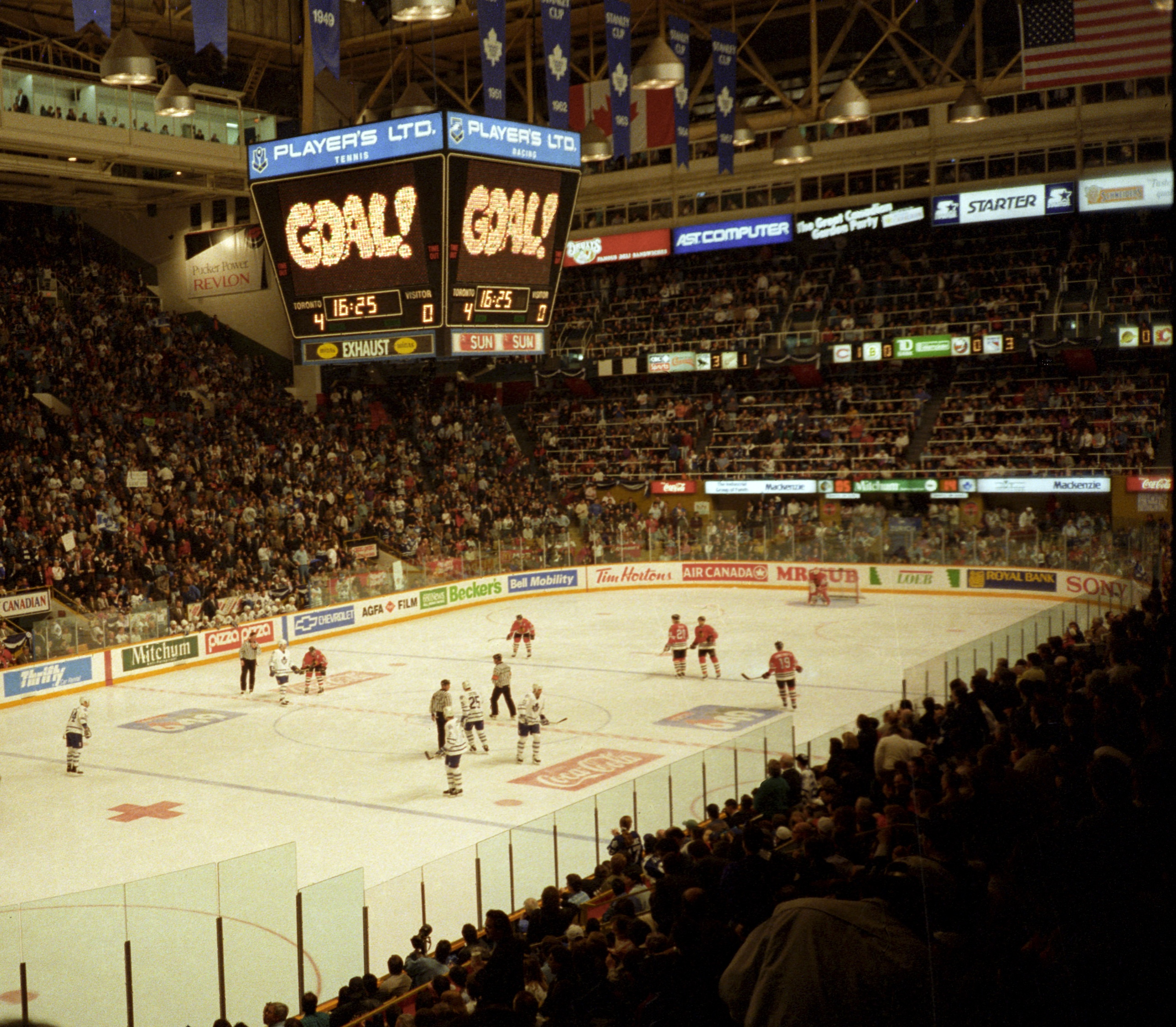 Maple Leafs vs. Blackhawks 1st Playoff Game 1994